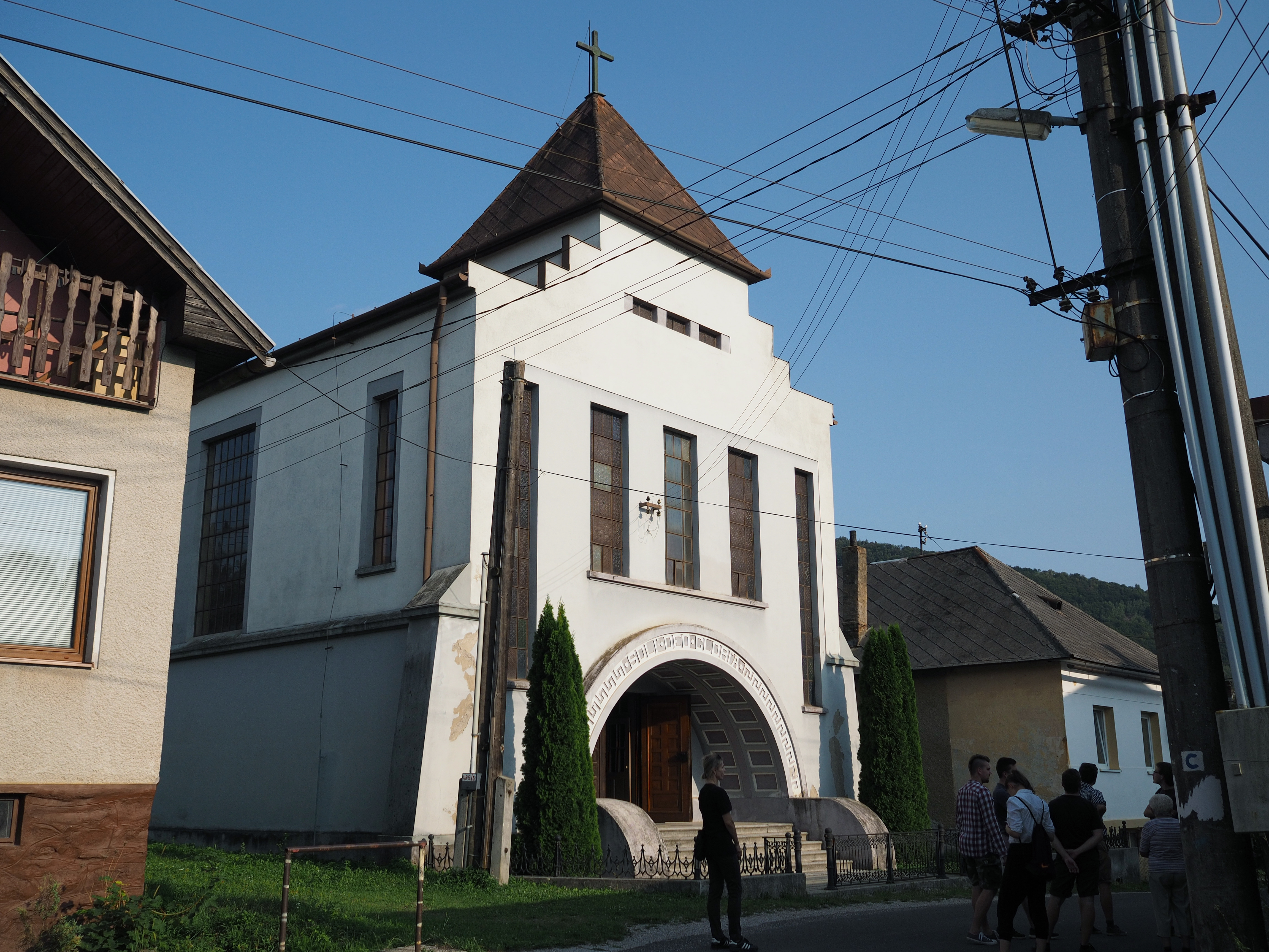 Lutheran Church in Magnezitovce (local area Mníšany), Slovakia. Modernist building from 1933.